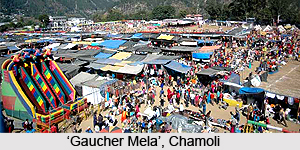 एक मजेदार जगह।